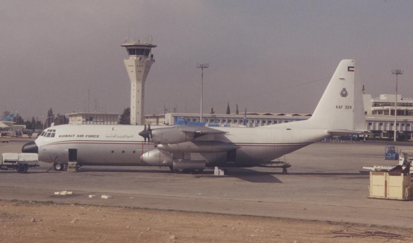 Lockheed L-100-30 Hercules KAF324 of the Kuwait Air Force at Damascus Airport